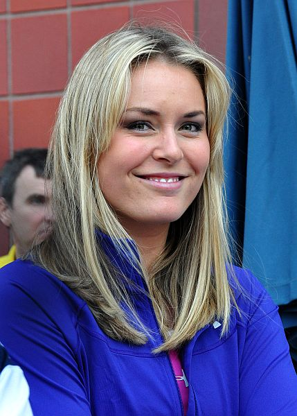 Lindsey Vonn at the 2010 Arthur Ashe kids Tennis day in New York